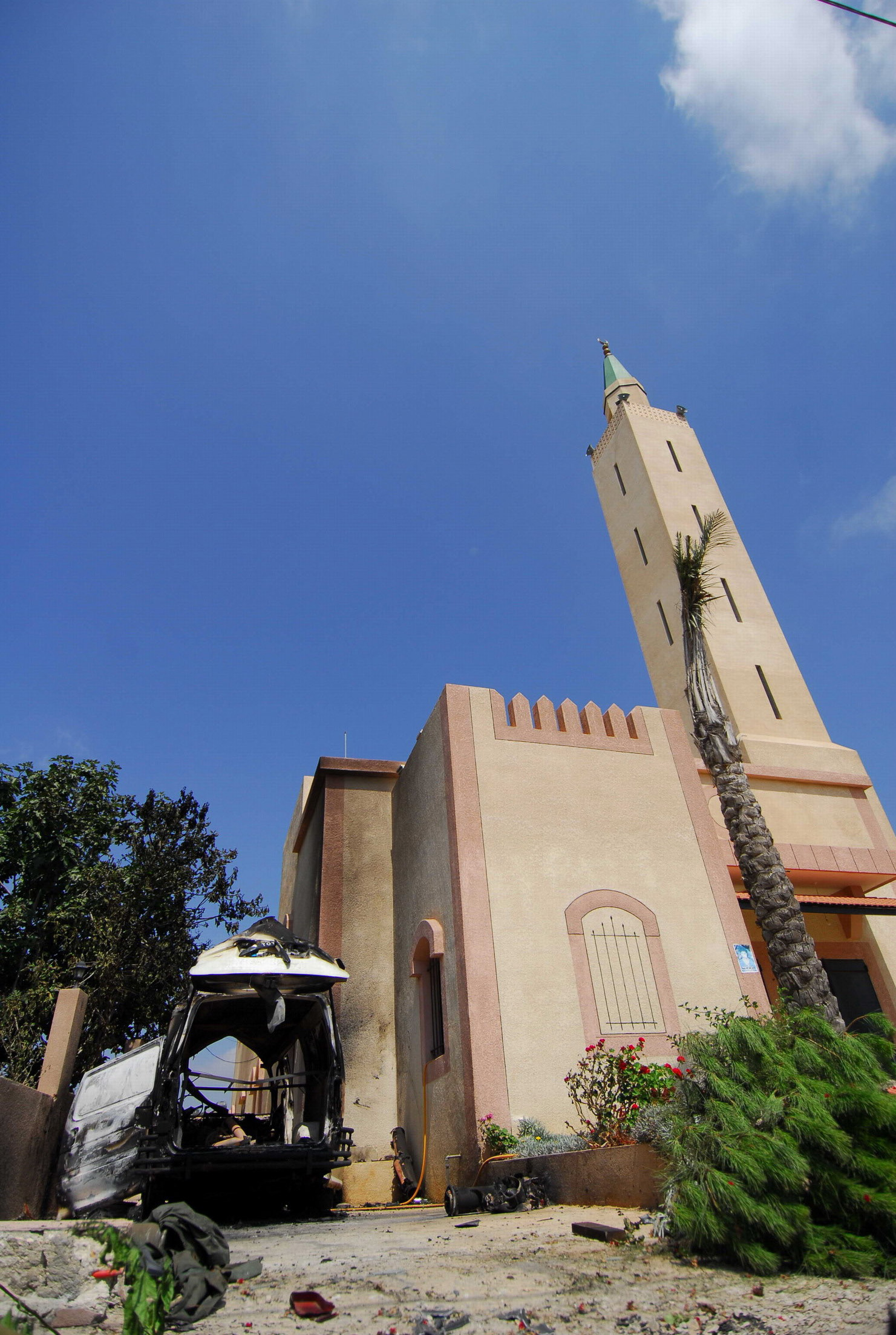 July 20, 2006 IDF forces targeted a vehicle holding a large stockpile of anti-tank missiles in the village of Marwahin in southern Lebanon. The cache was found in the basement of a mosque in the village.